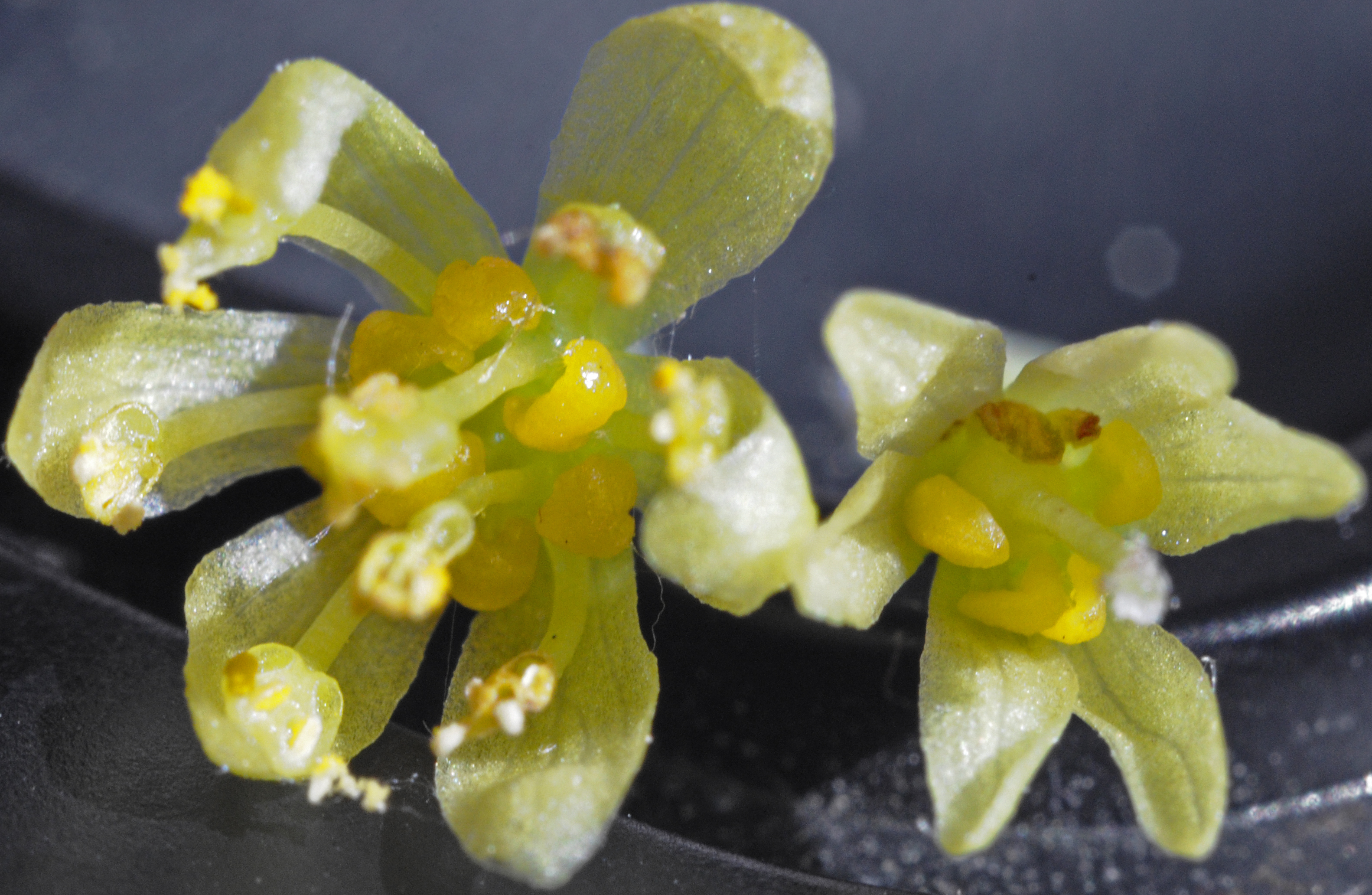 Male and Female Sassafras Flowers. The Male flower is on the left the female is on the right. Notice how the male flower has nine stamens (one partially obscured), while the female has a central pistil.